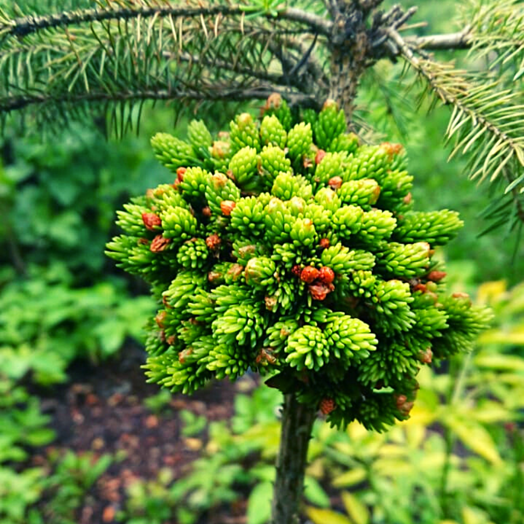 WB Picea orientalis "Key Kea" by Roman Mandziuk, Ukraine.